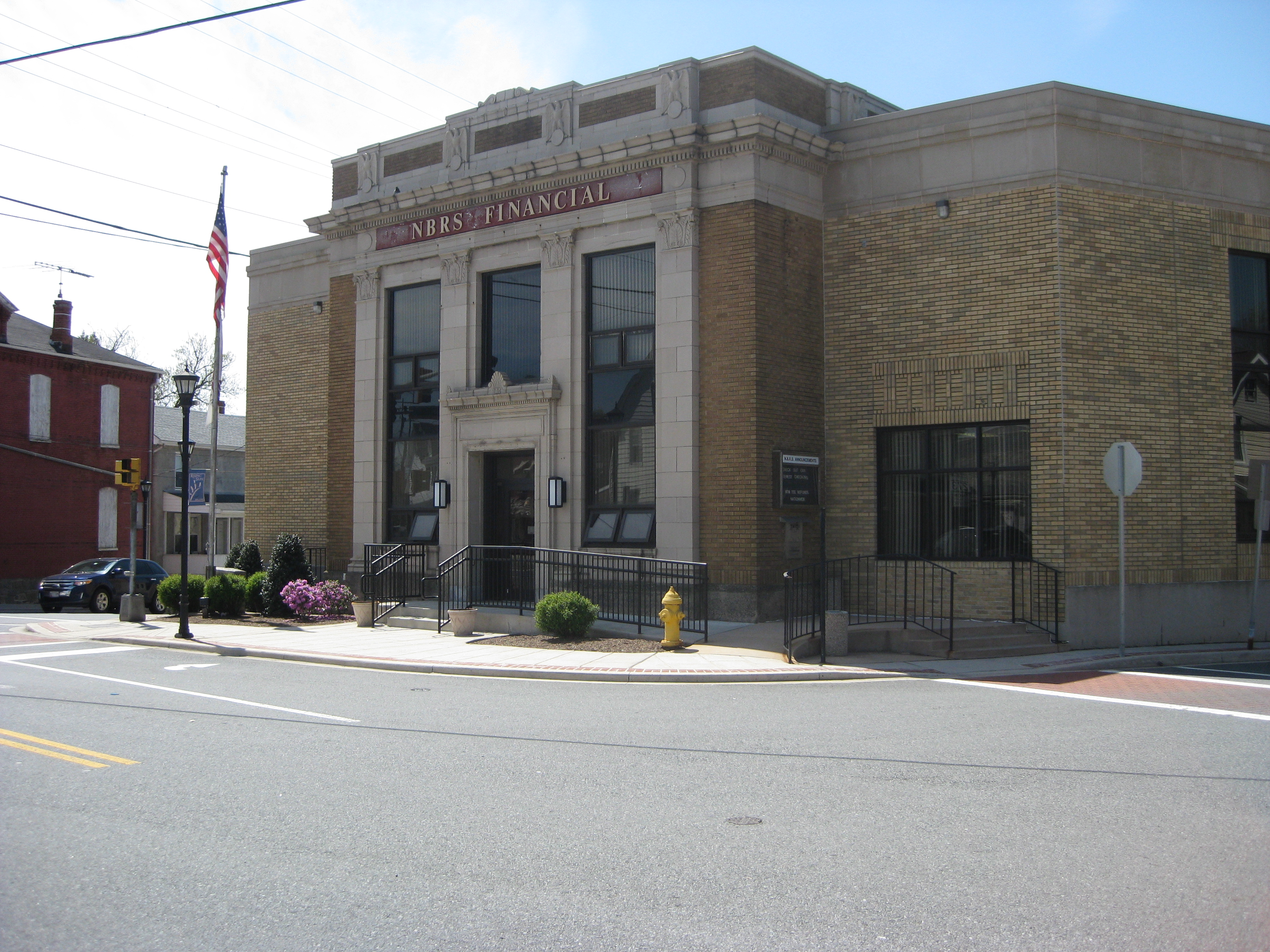 The NBRS bank at the corner of Main St, Queen St, and Pearl St in Rising Sun, Maryland